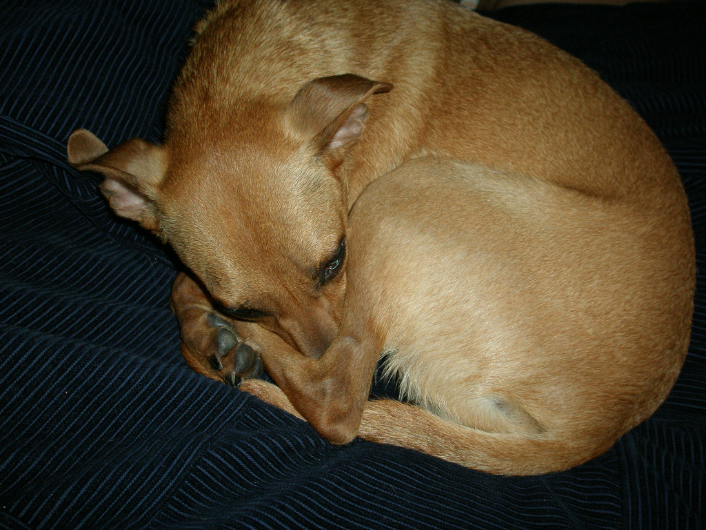 A sleeping Rat Terrier